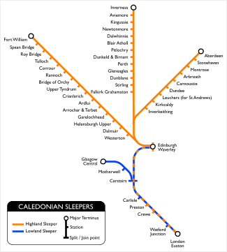 Caledonian Sleeper Route Map